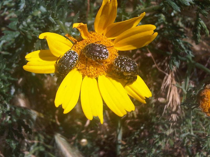 Oxythyrea funesta in Republic of Malta.